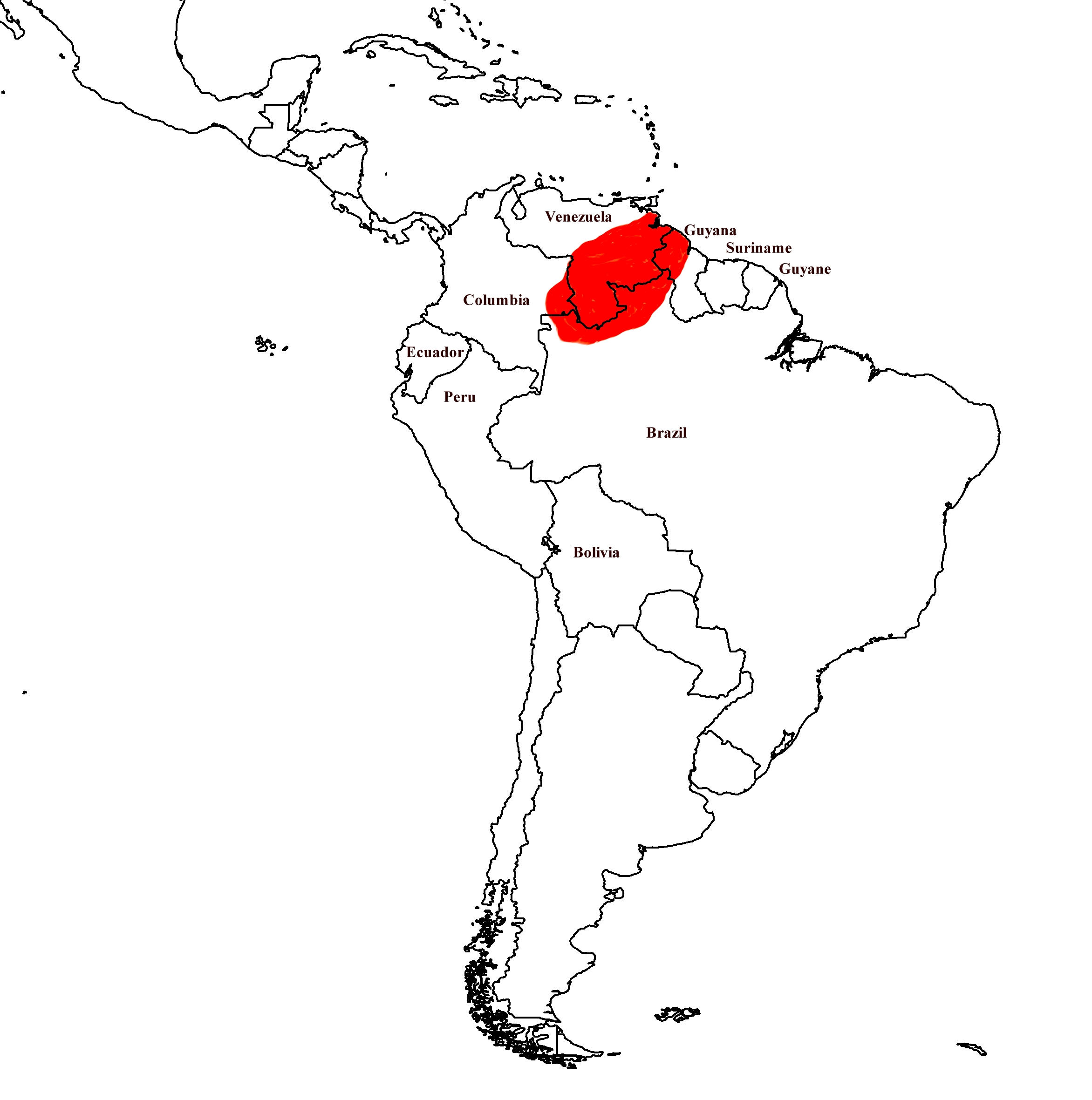 Approximate distribution/range of Dendrobates Leucomelas